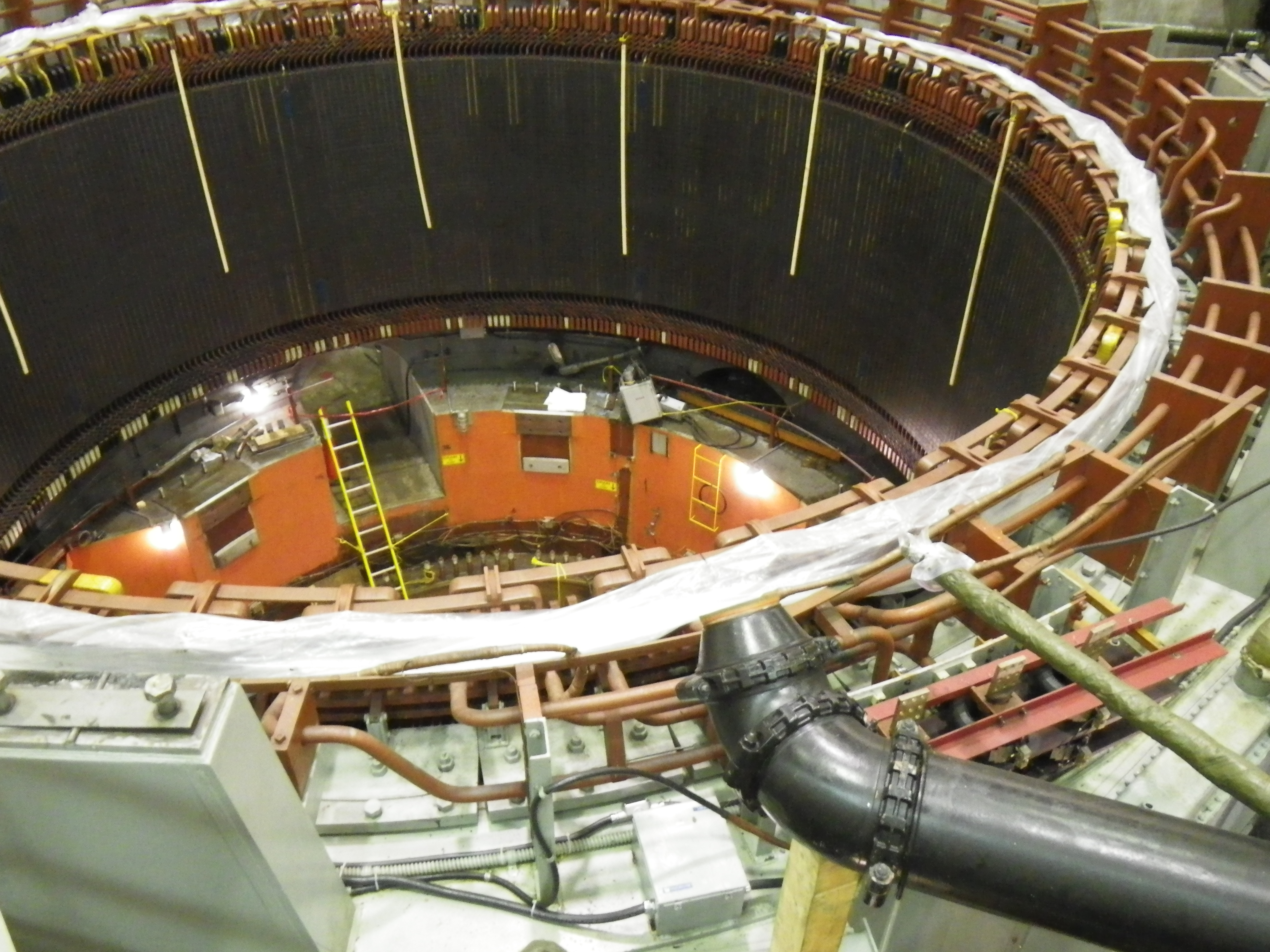 One of 11 units a the Churchill Falls generating station in Labrador being repaired in November 2011, allowing a rare opportunity for visitors to actually see the turbine shaft and the stator.